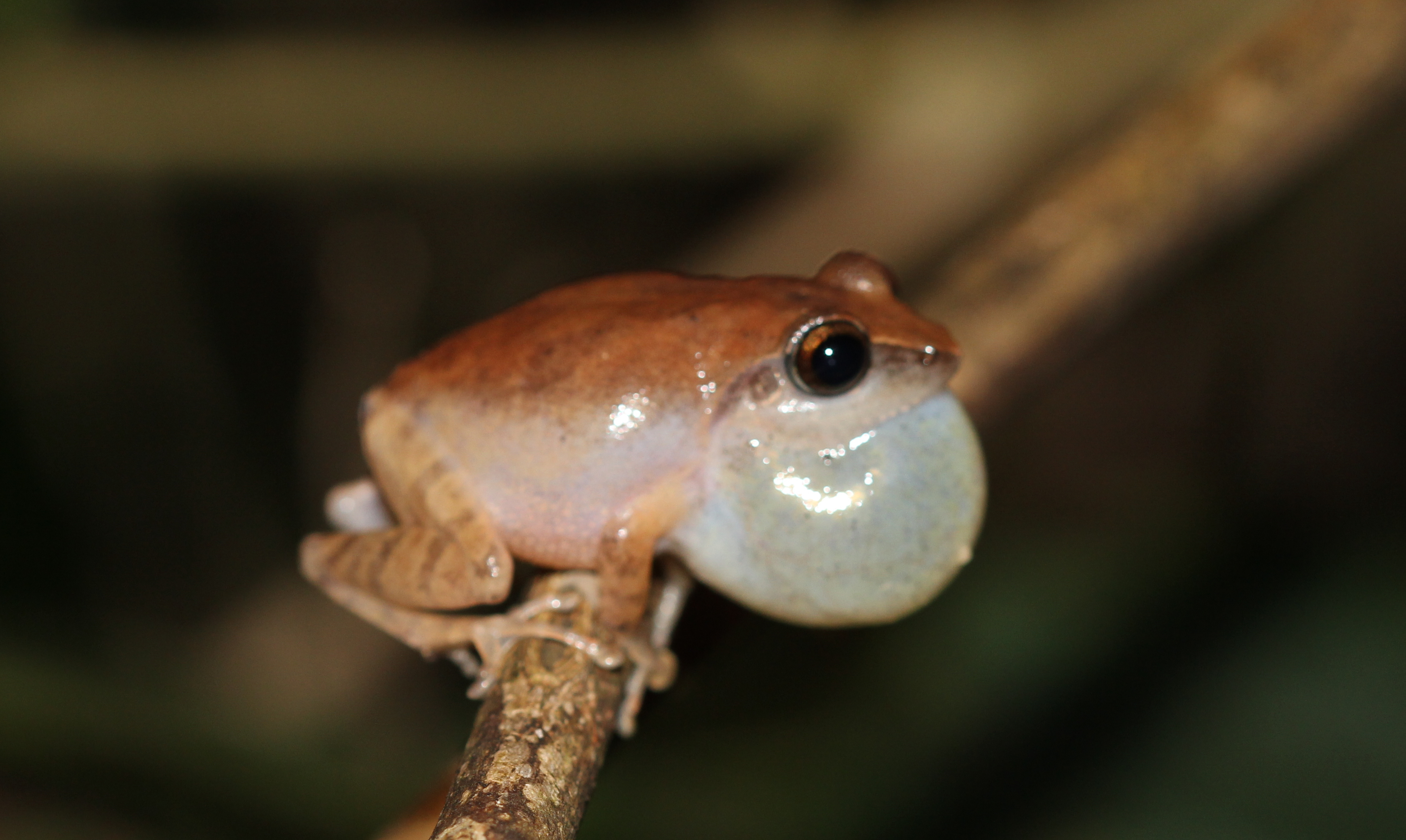 Waynad bush frog calling in the night